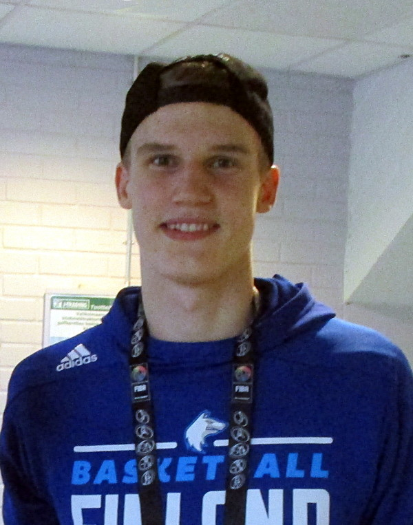 Don Bigileone & Lauri Markkanen at Helsinki ice hall at 2016 FIBA Europe Under-20 Championship in Helsinki, Finland on 24th of July 2016.